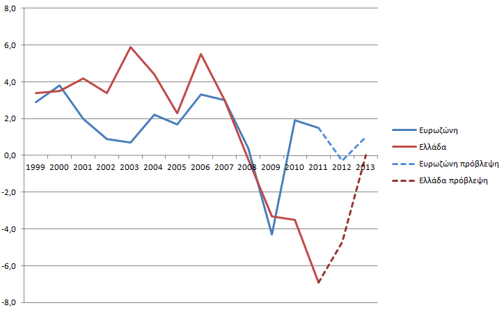 Greece vs Eurozone GDP rate between 1999-2013 with the last two years being projections. Data